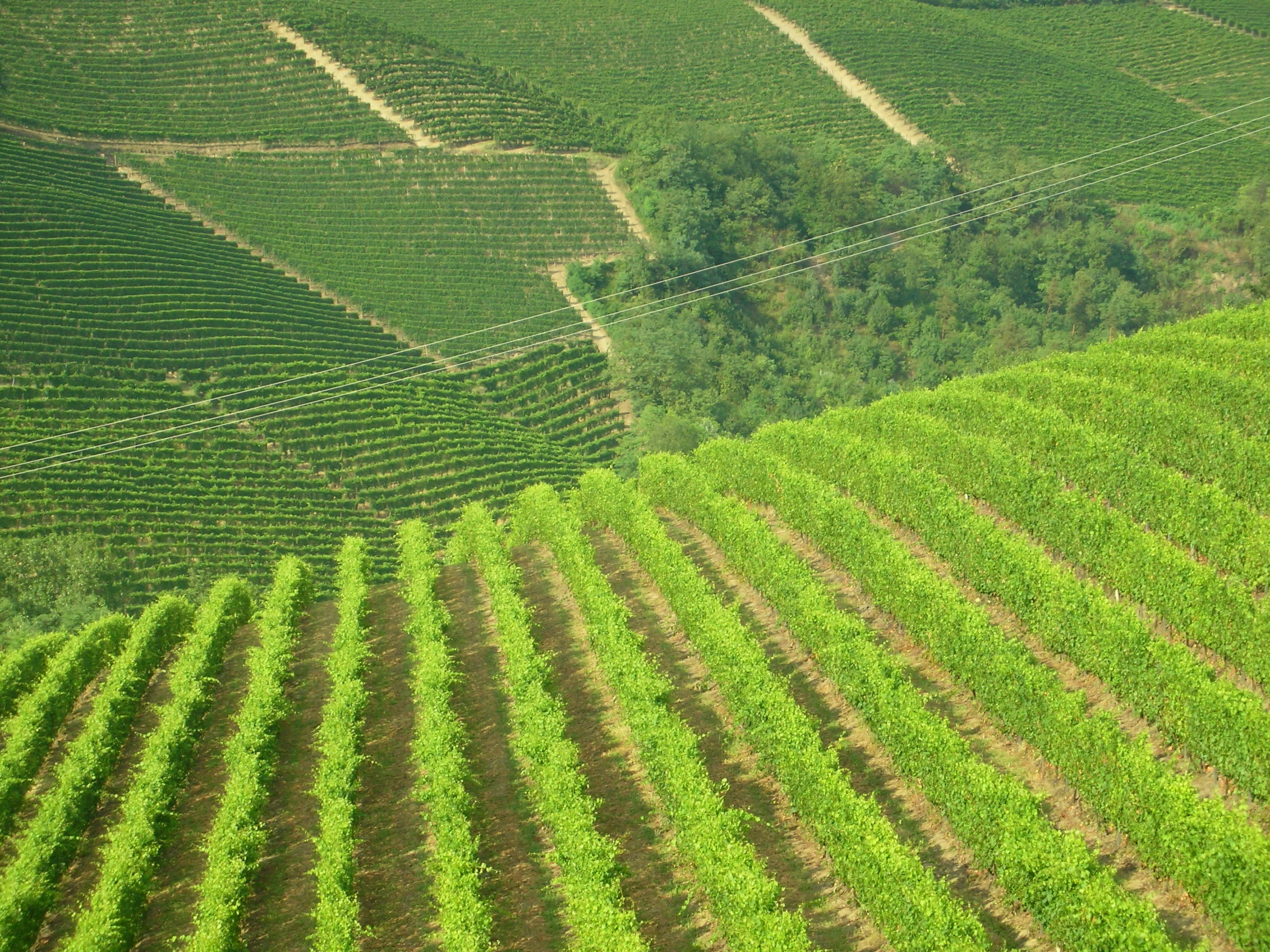 Italian vineyards near Tresio in the Langhe region of Piedmont